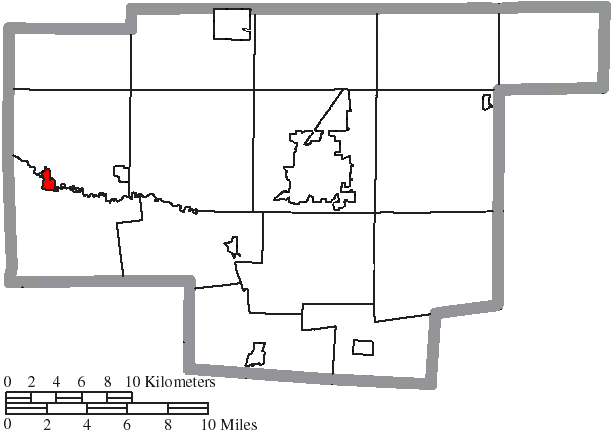 Map of the municipal and township boundaries of Marion County, Ohio, United States, as of the 2000 census, with the location of the village of LaRue highlighted. Township borders are shown only in unincorporated areas in order to differentiate incorporated and unincorporated areas more clearly.